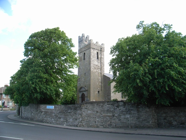 Old St Mary's Church, Crumlin At the junction of St Mary's Road and Crumlin Village.